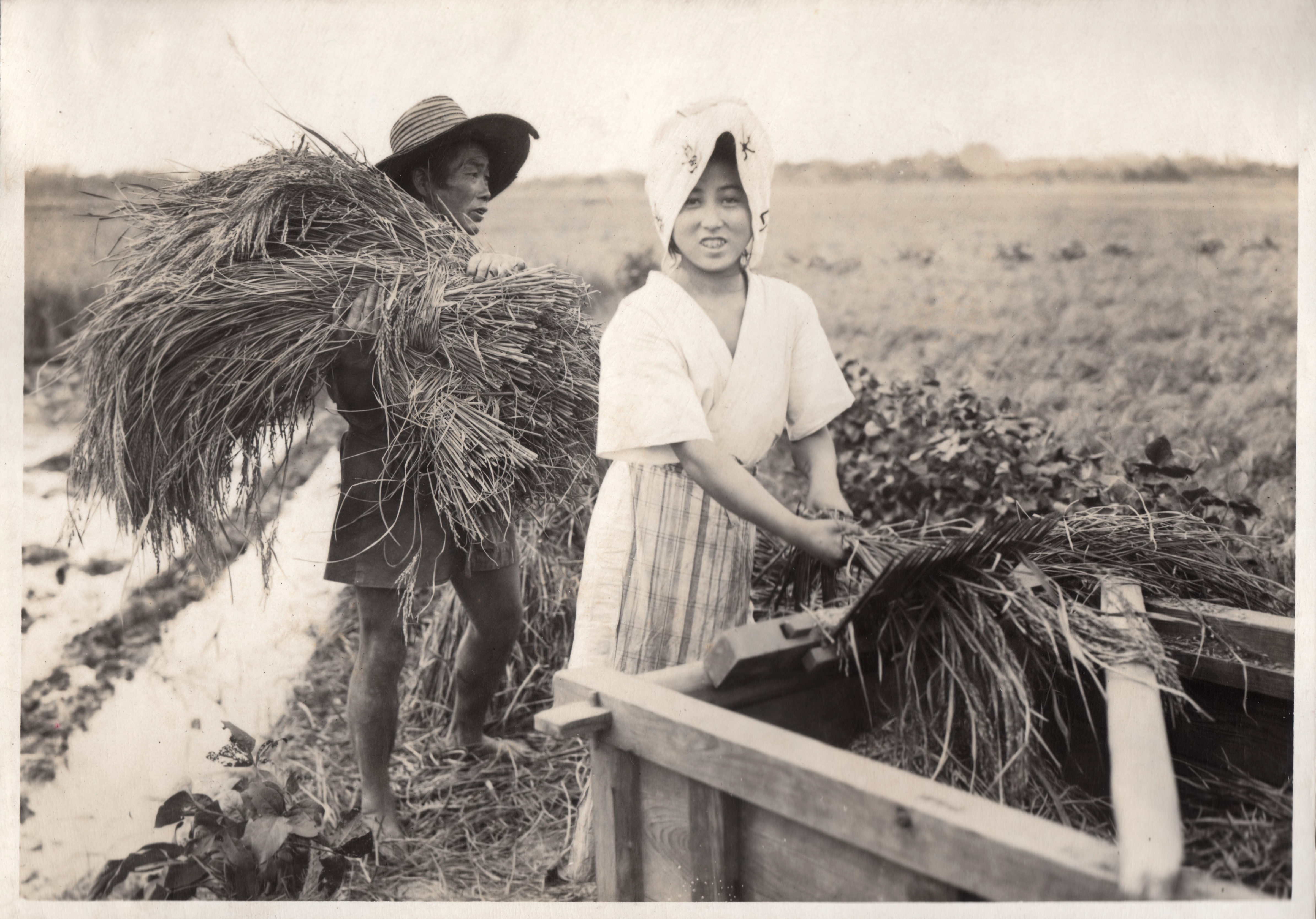 From Elstner Hilton's photographs of Japan, 1914 - 1918. Image dimension: 146 mm x 102 mm.